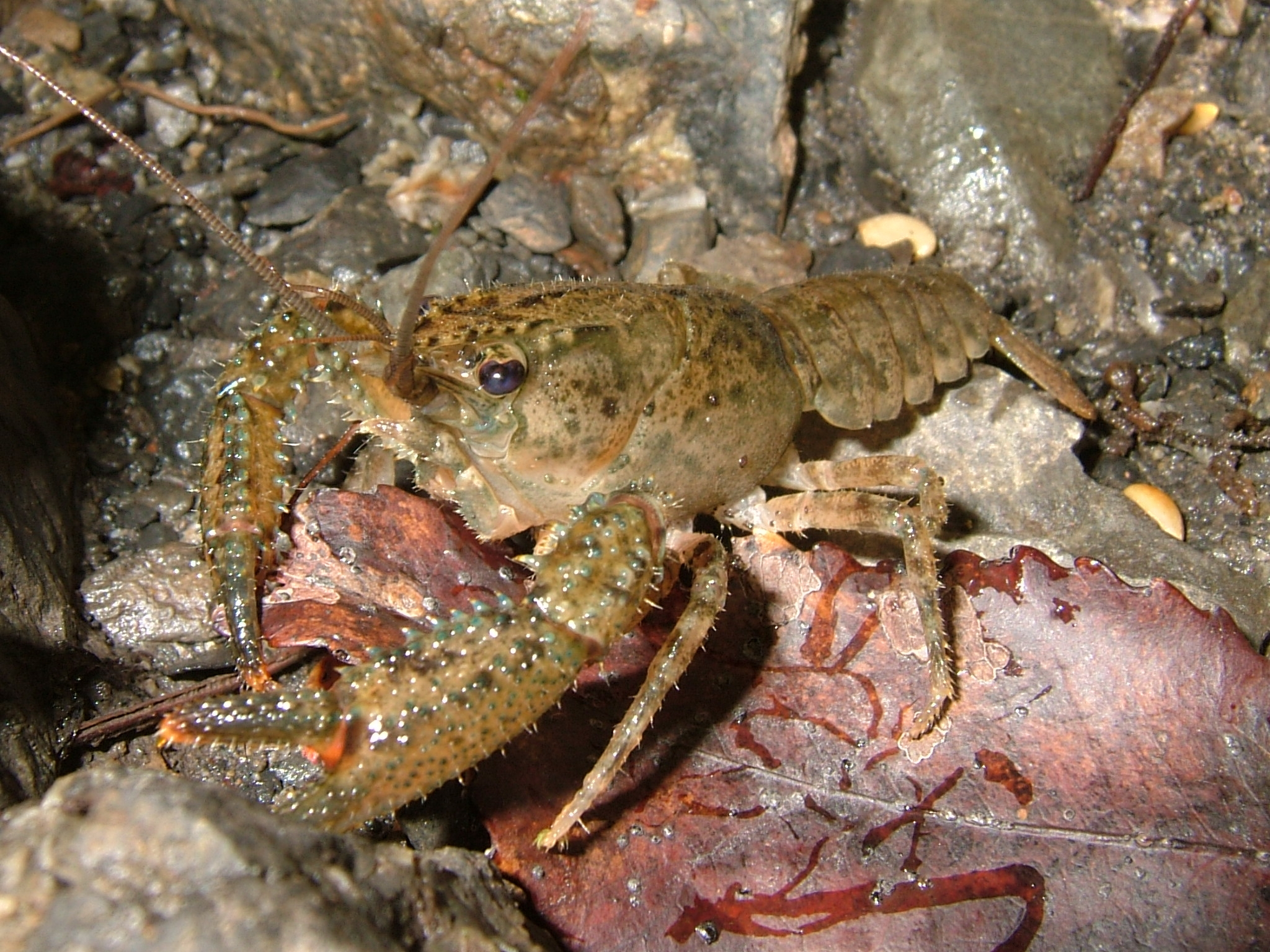 A crayfish